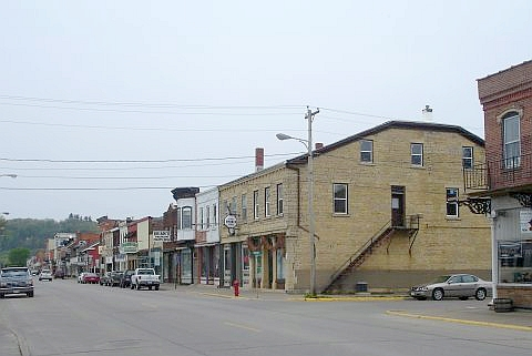 Downtown Bellevue, Iowa